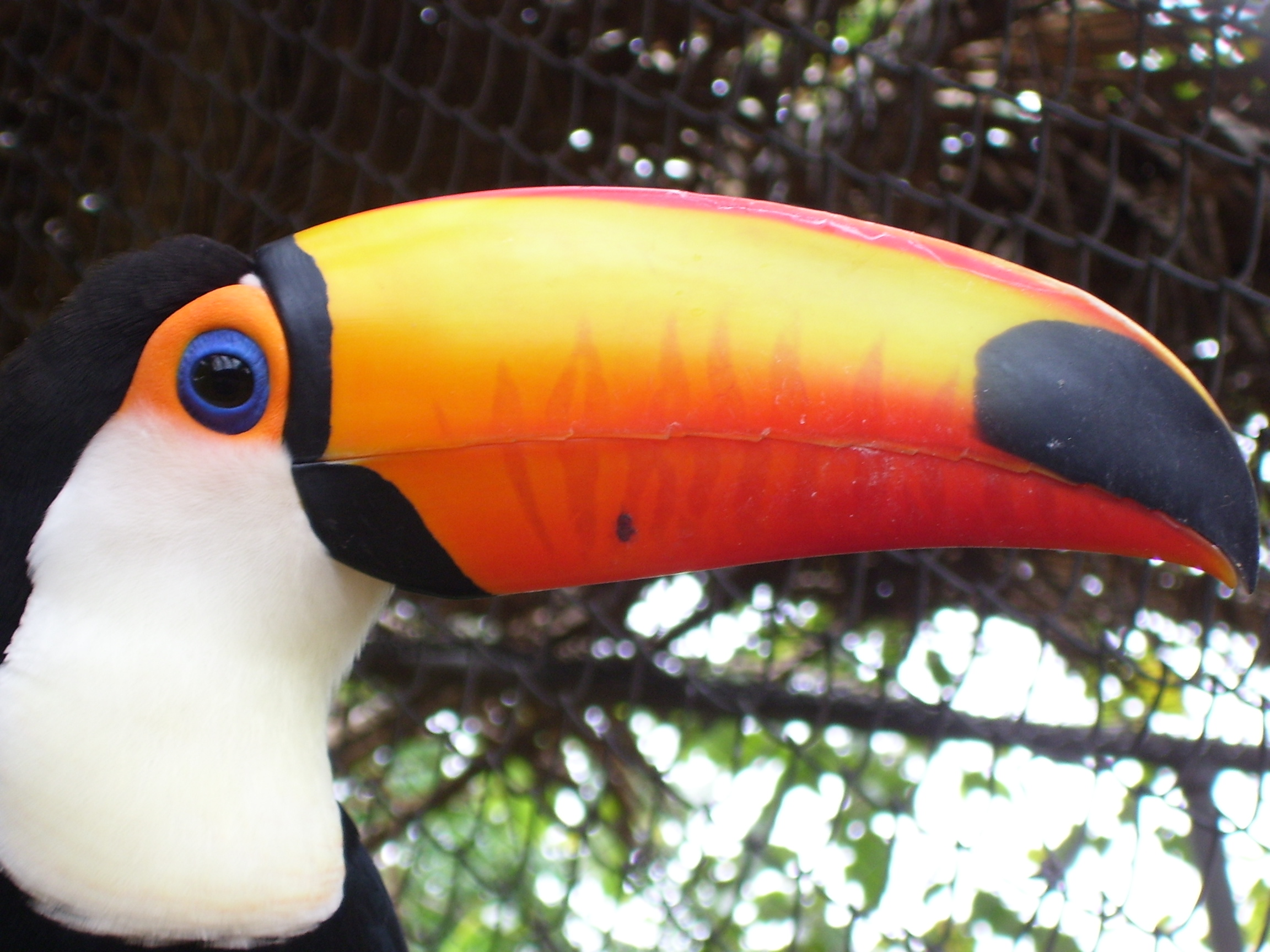 Head of Toco Toucan (Ramphastos toco), in the zoo of Federal University of Mato Grosso, Cuiabá, Brazil.